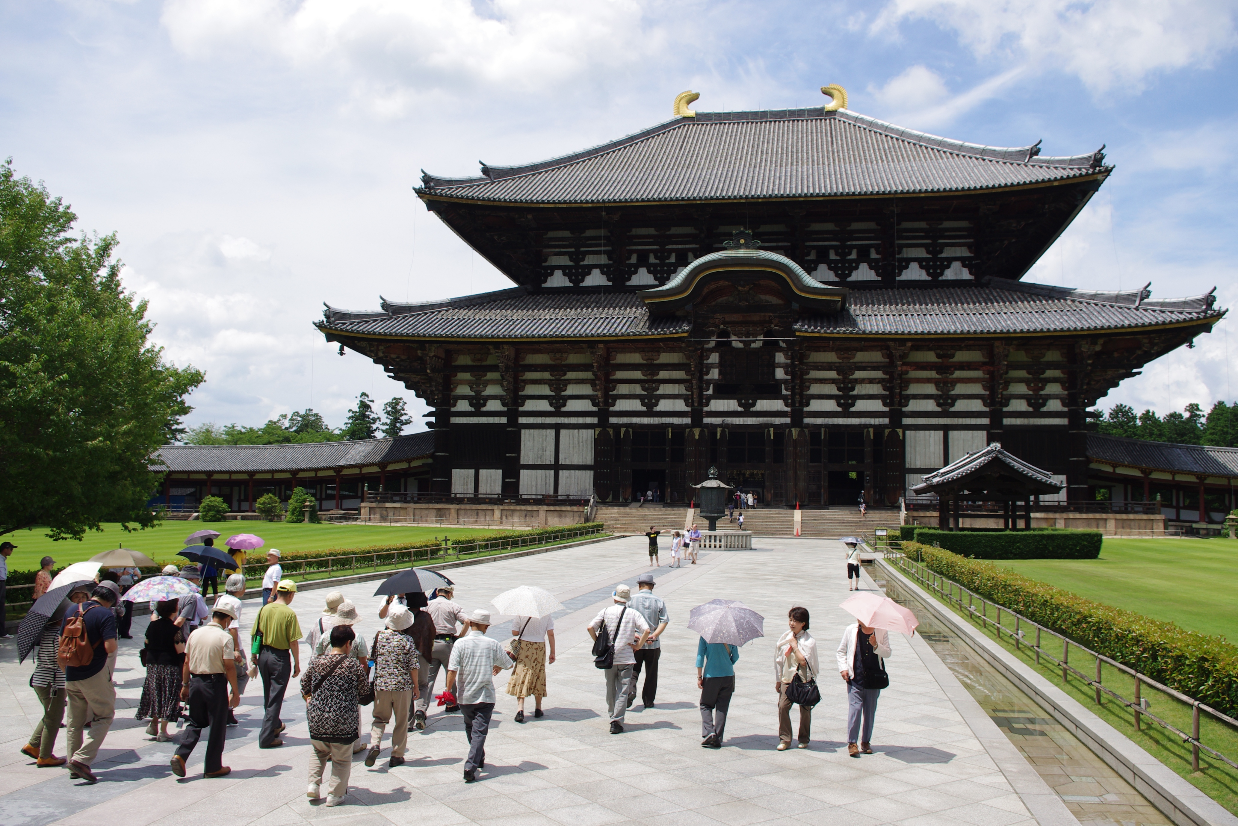 The Golden Hall of Todaiji Temple in Nara, Japan